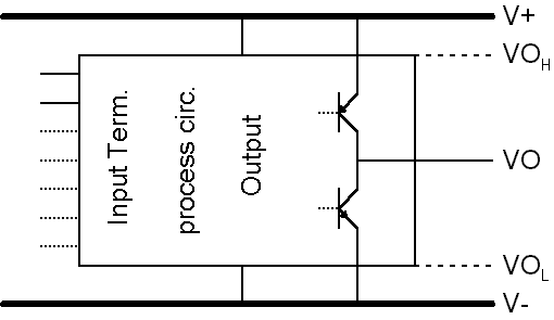 Schematic functional block for any IC